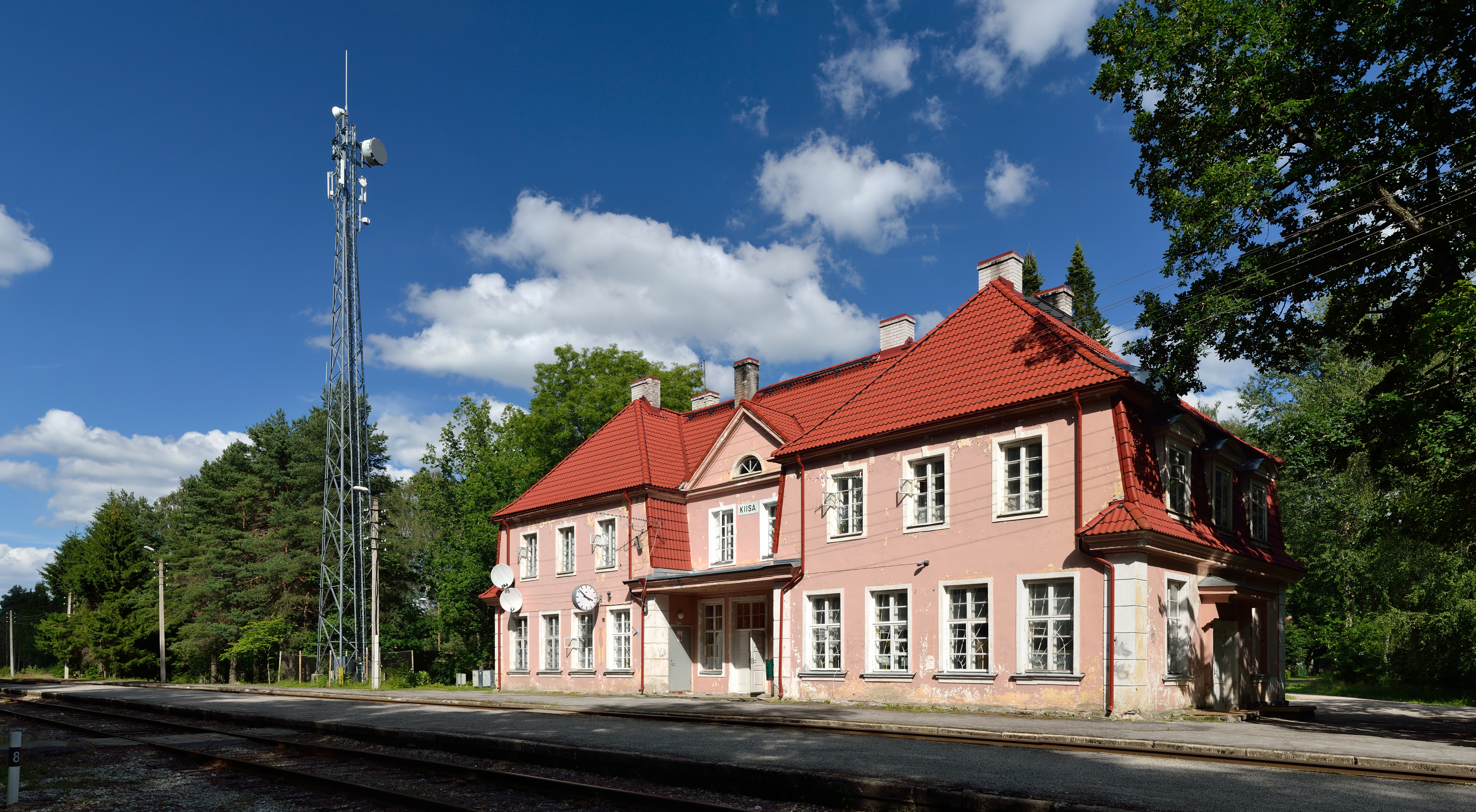 Kiisa station building, built in 1928.